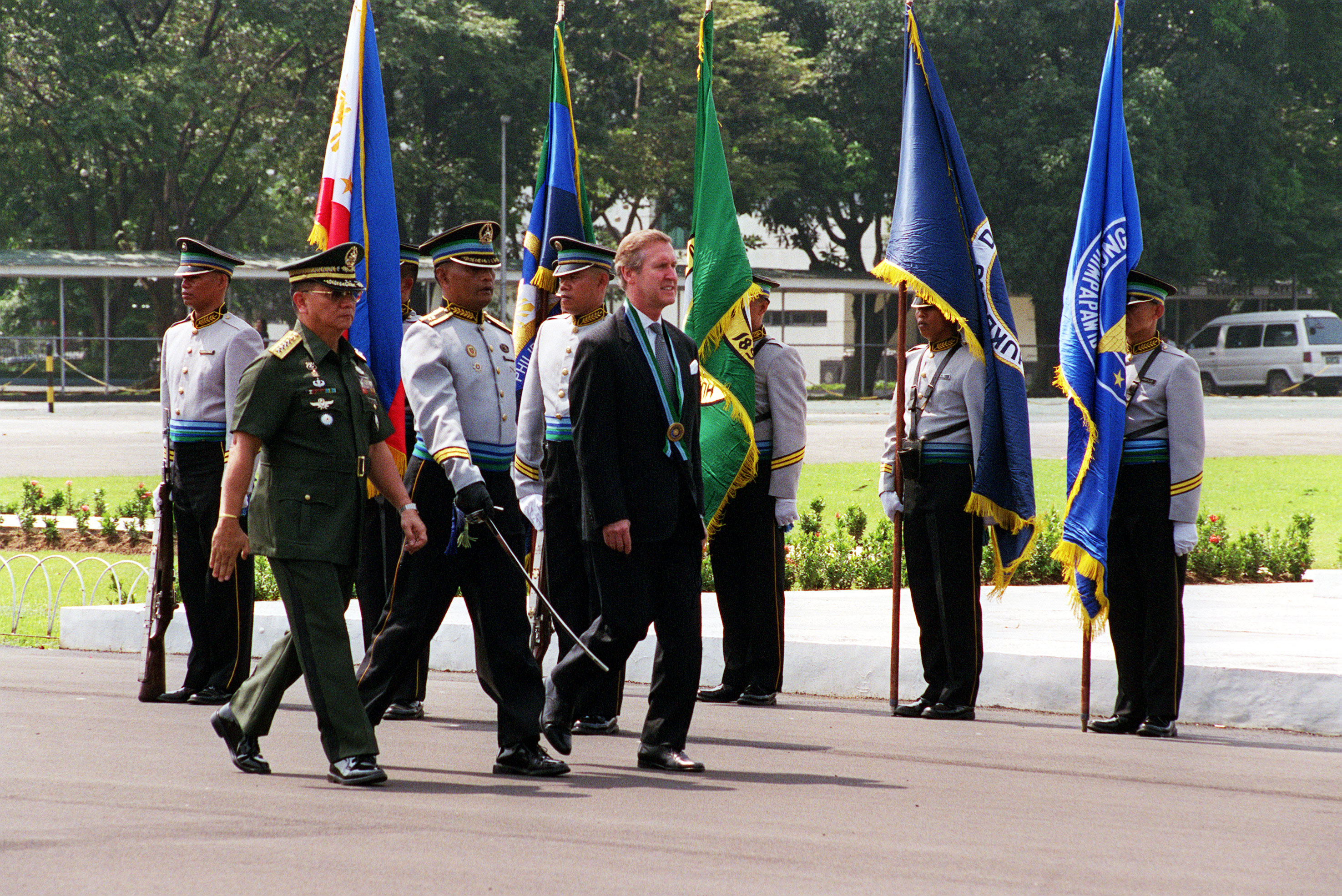 Secretary of Defense William S. Cohen (right) wears the Medallion of the Armed Forces General Headquarters of Philippines as he inspects the troops at Camp Aguinaldo on Sept. 15, 2000. Chief of Staff of the Armed Forces of the Philippines General Angelo T. Reyes (left) hosted the armed forces welcoming ceremony.